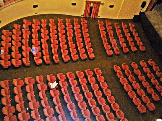 armchairs